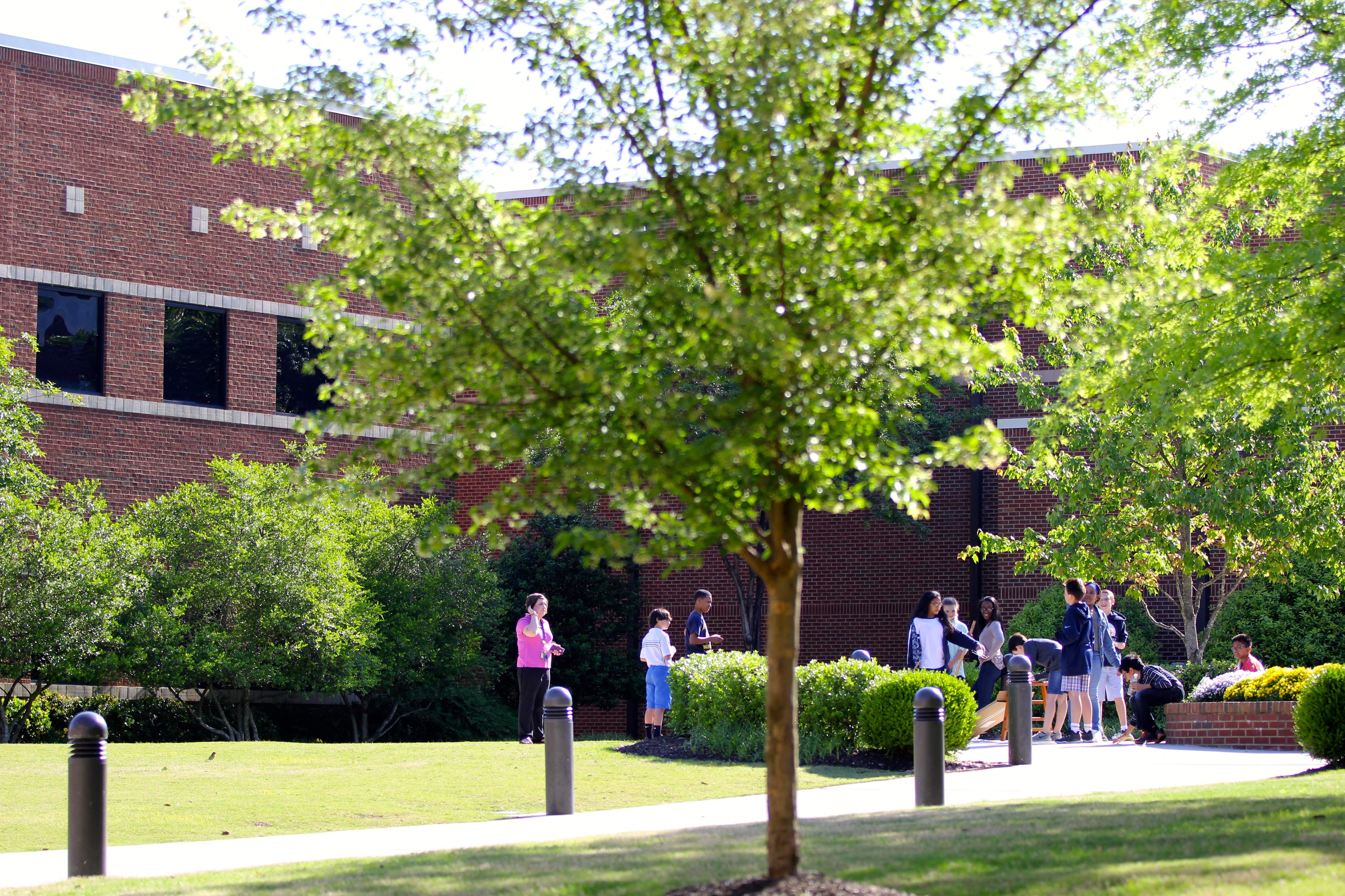 Class being held outside at Lausanne.